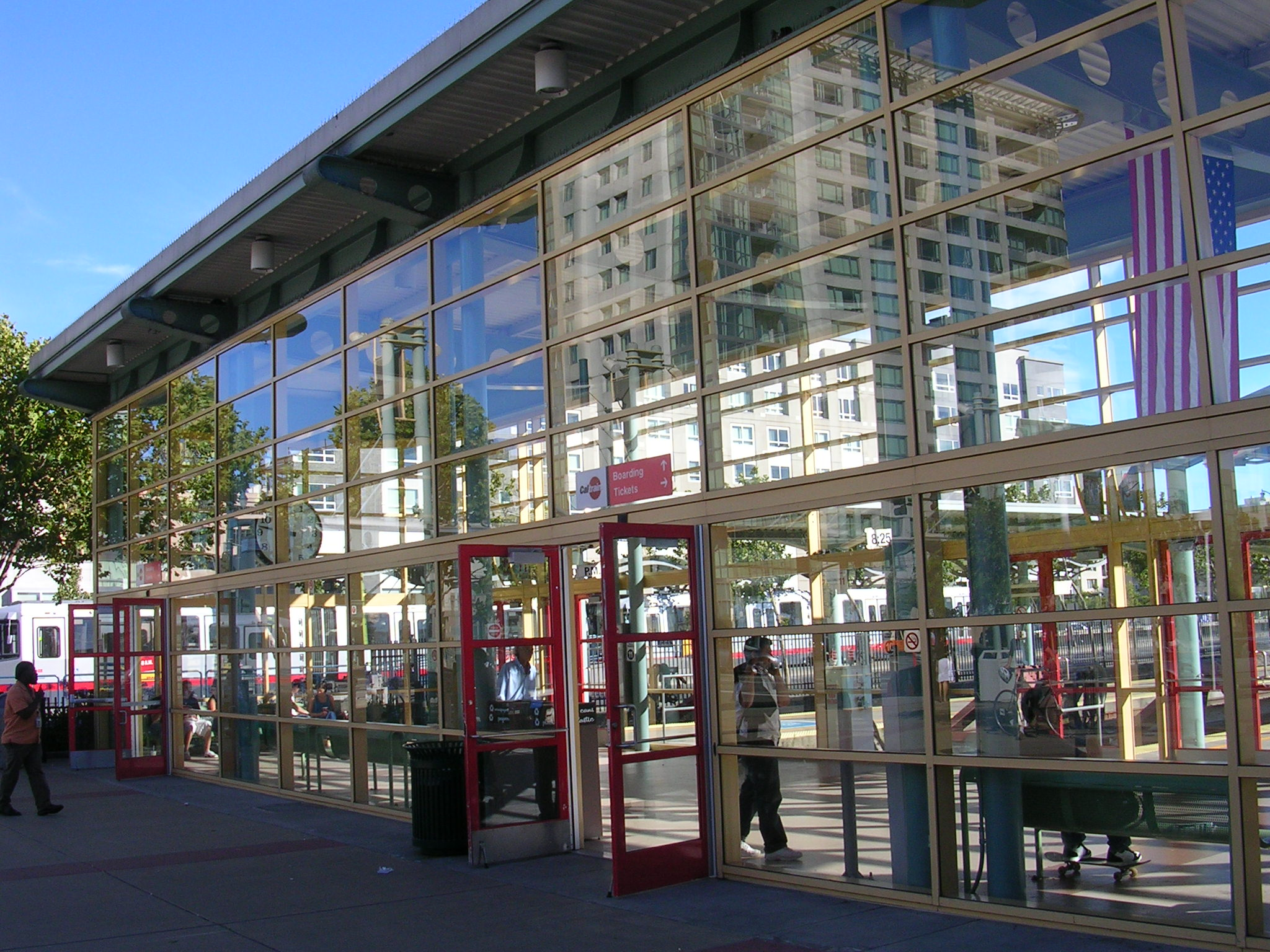 Taken by me in 2007.